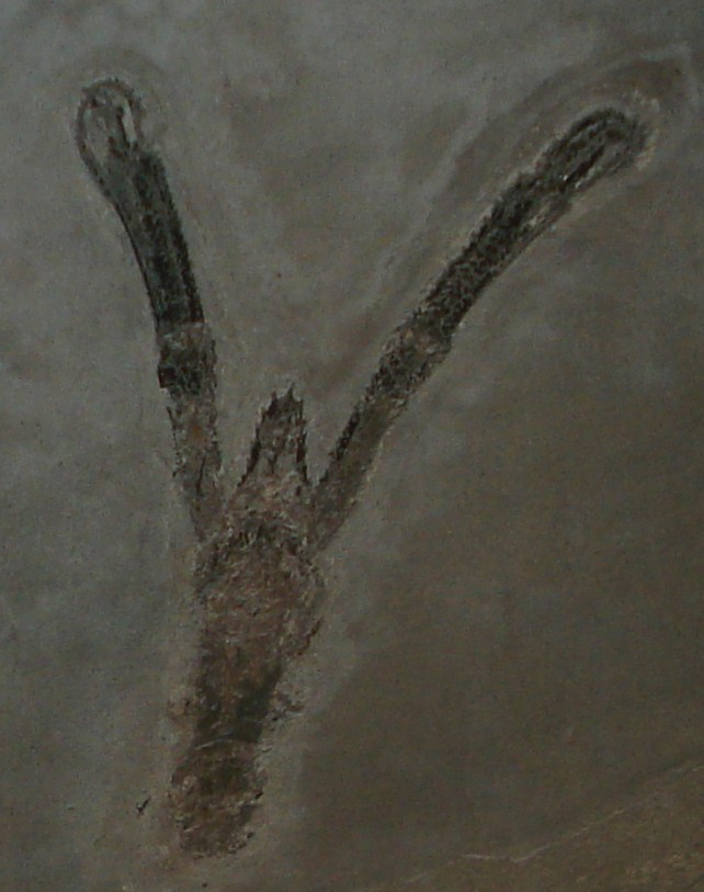 fossil of uncina